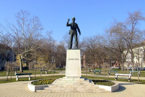 Statue of Attila Jozsef by András Beck on József Attila tér (Budapest XIII, Hungary)